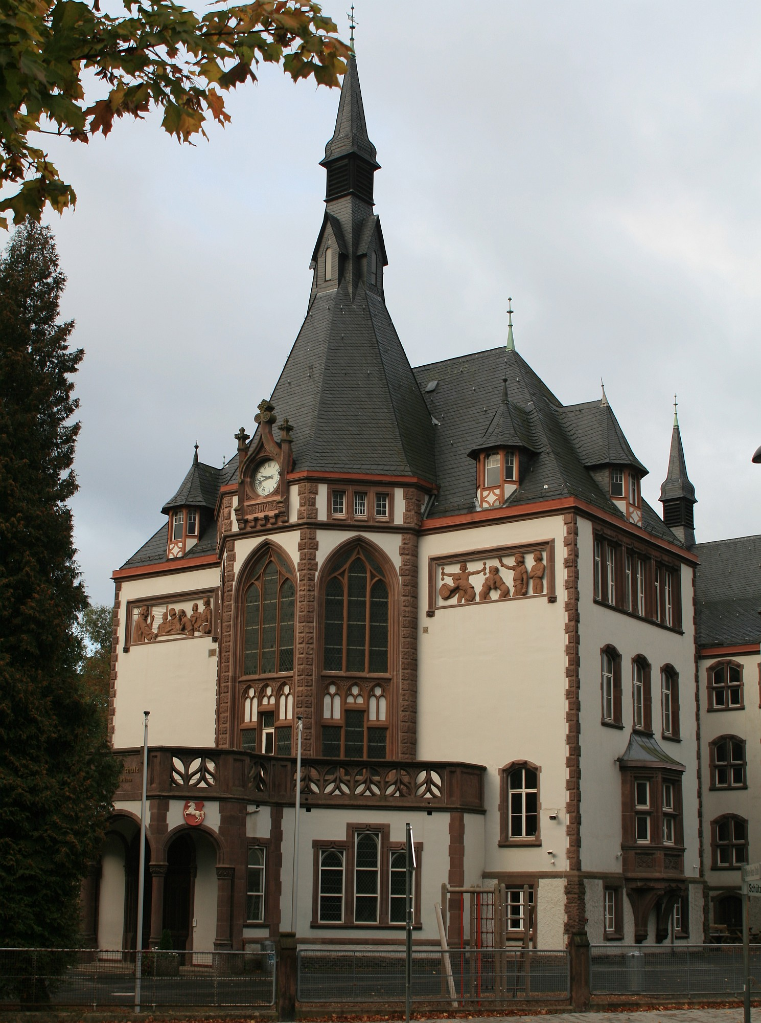 Secondary school Goetheschule in Einbeck, Germany. Built 1907